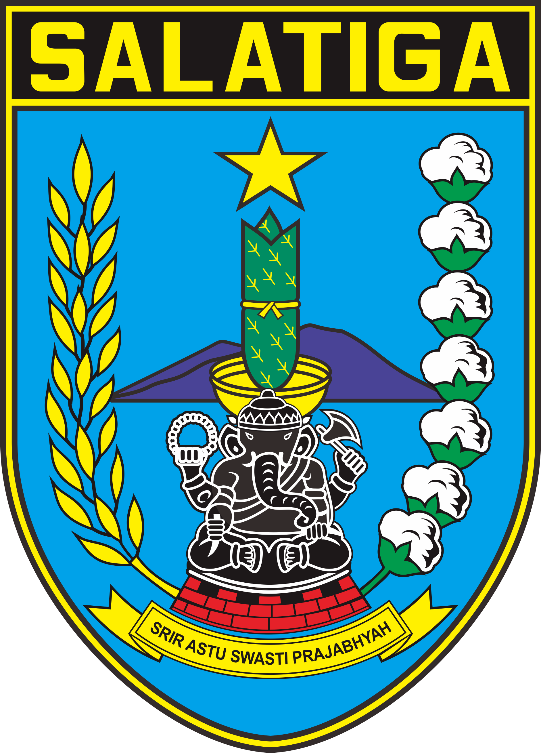 Shield of the City of Salatiga